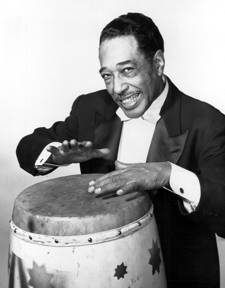 Photo of Duke Ellington at rehearsal for his live performance of "A Drum Is A Woman". Ellington performed his composition live on a telecast of "The United States Steel Hour".